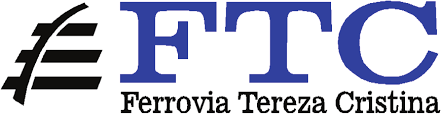 Logo da FTC